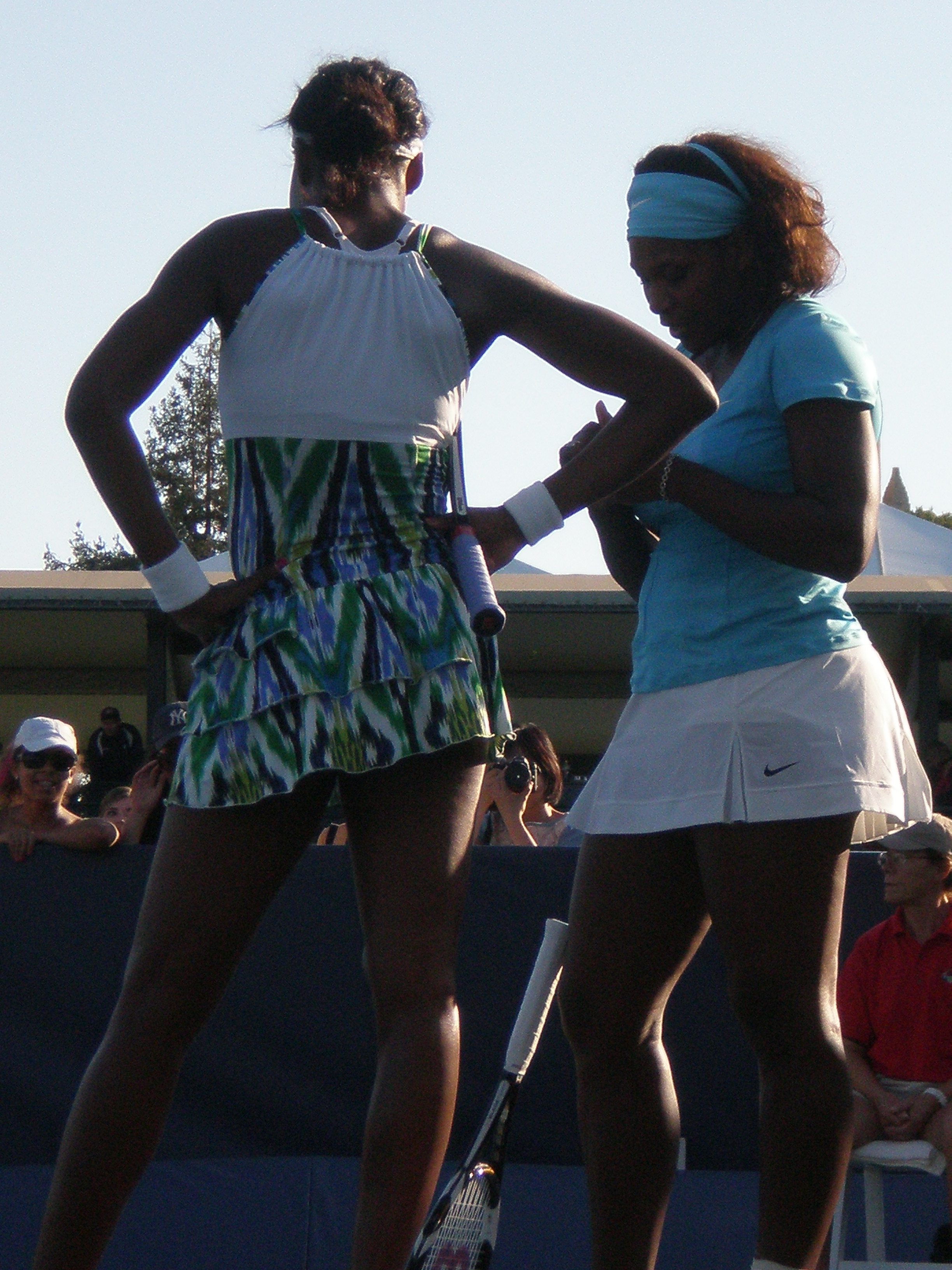 Venus (left) and Serena Williams during their doubles match against Mashona Washington and Yi Chen at the Bank of the West Classic in Stanford, California. The Williams sisters won in straight sets.